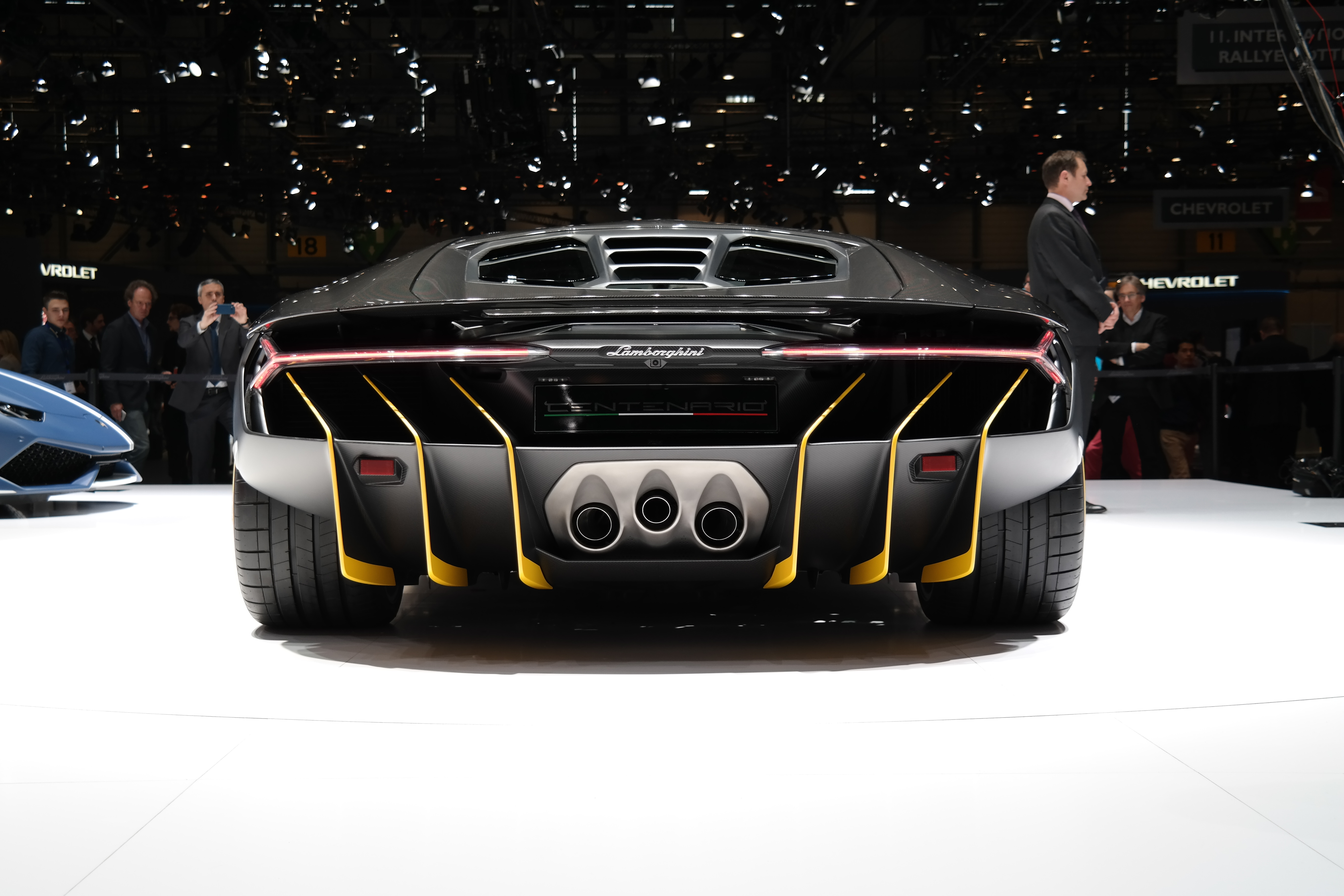 Geneva Motor Show 2016 (photo taken on the first press day)